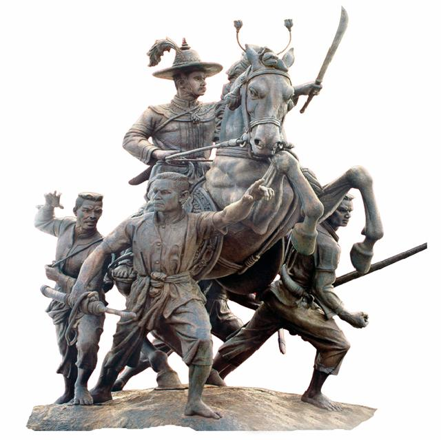 พระบรมราชานุสาวรีย์